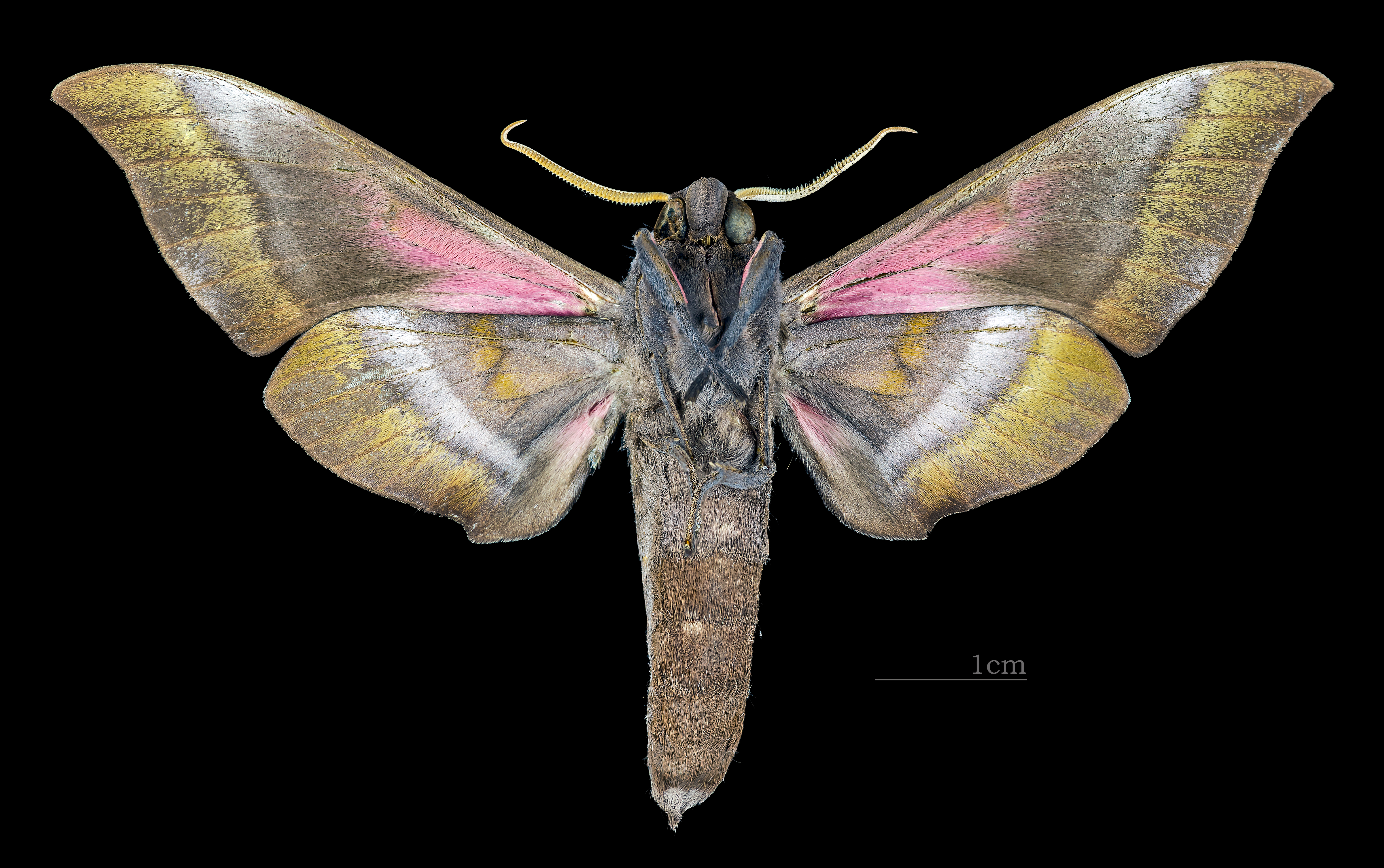 'Anambulyx elwesi - △ Ventral side Collection of the Mathematician Laurent Schwartz